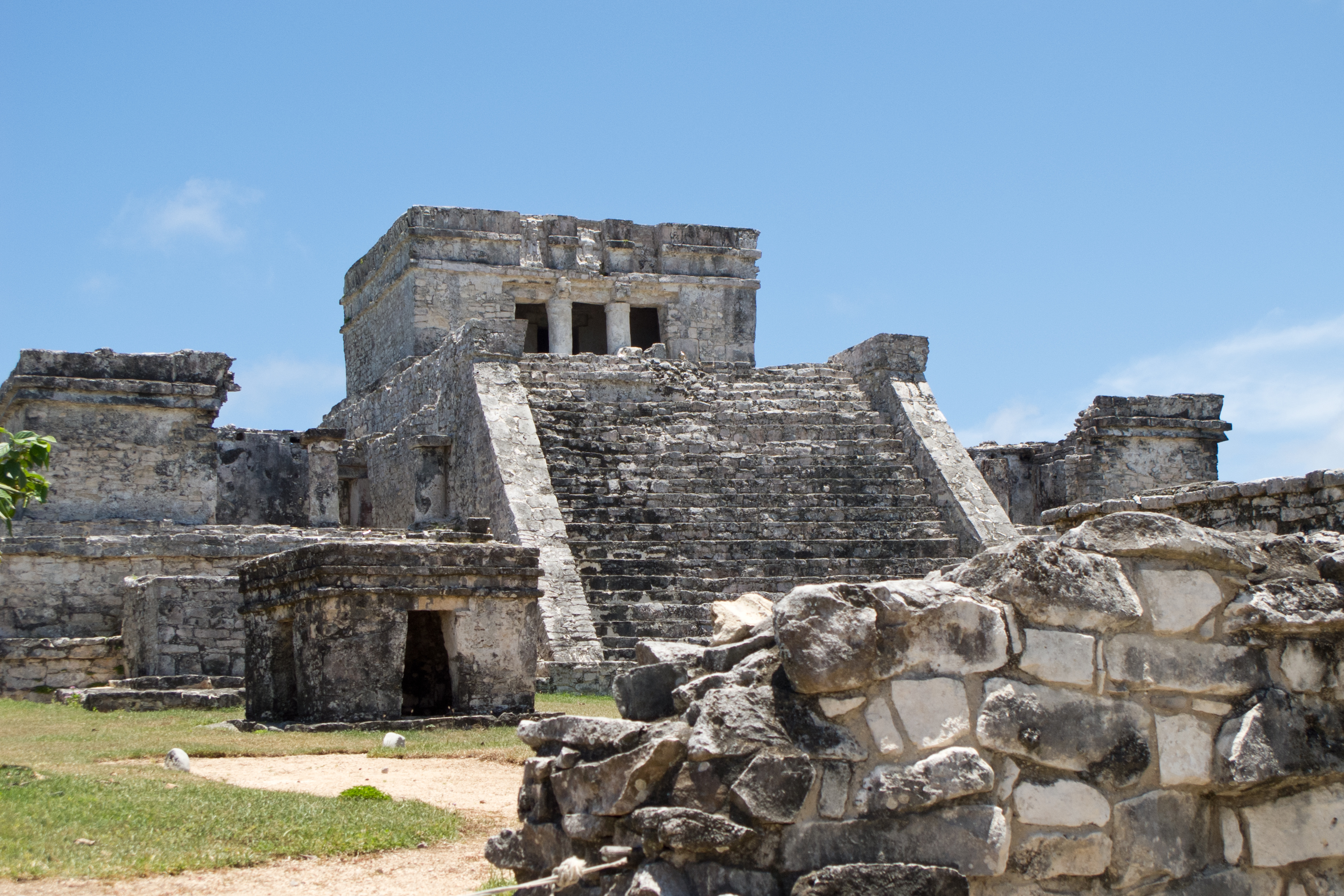 Tulum, Quintana Roo, Mexico.